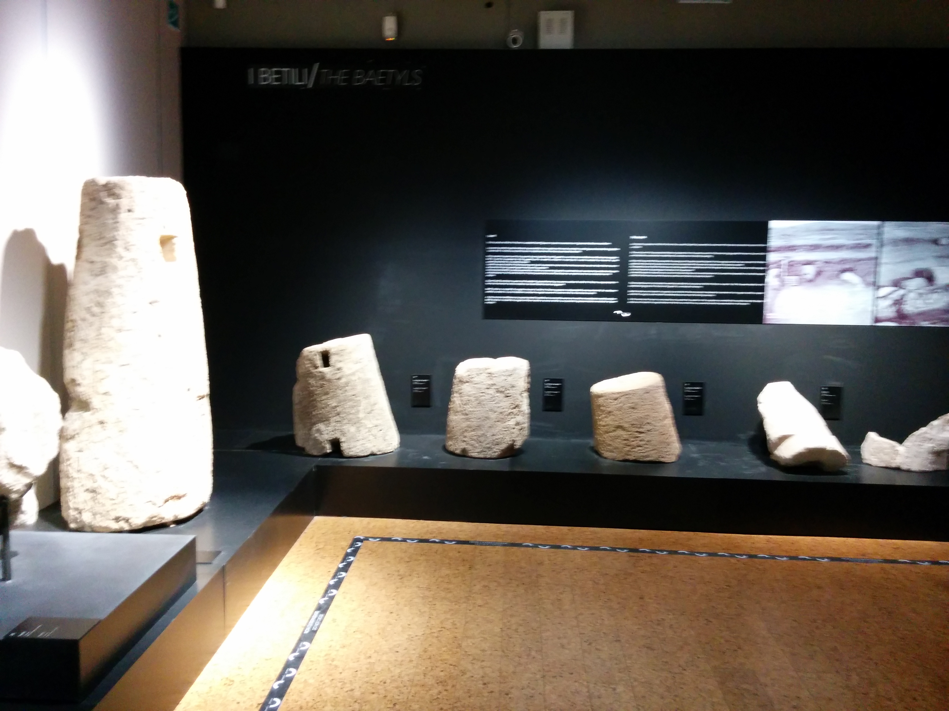 Betili of Monte Prama at Cagliari Museum